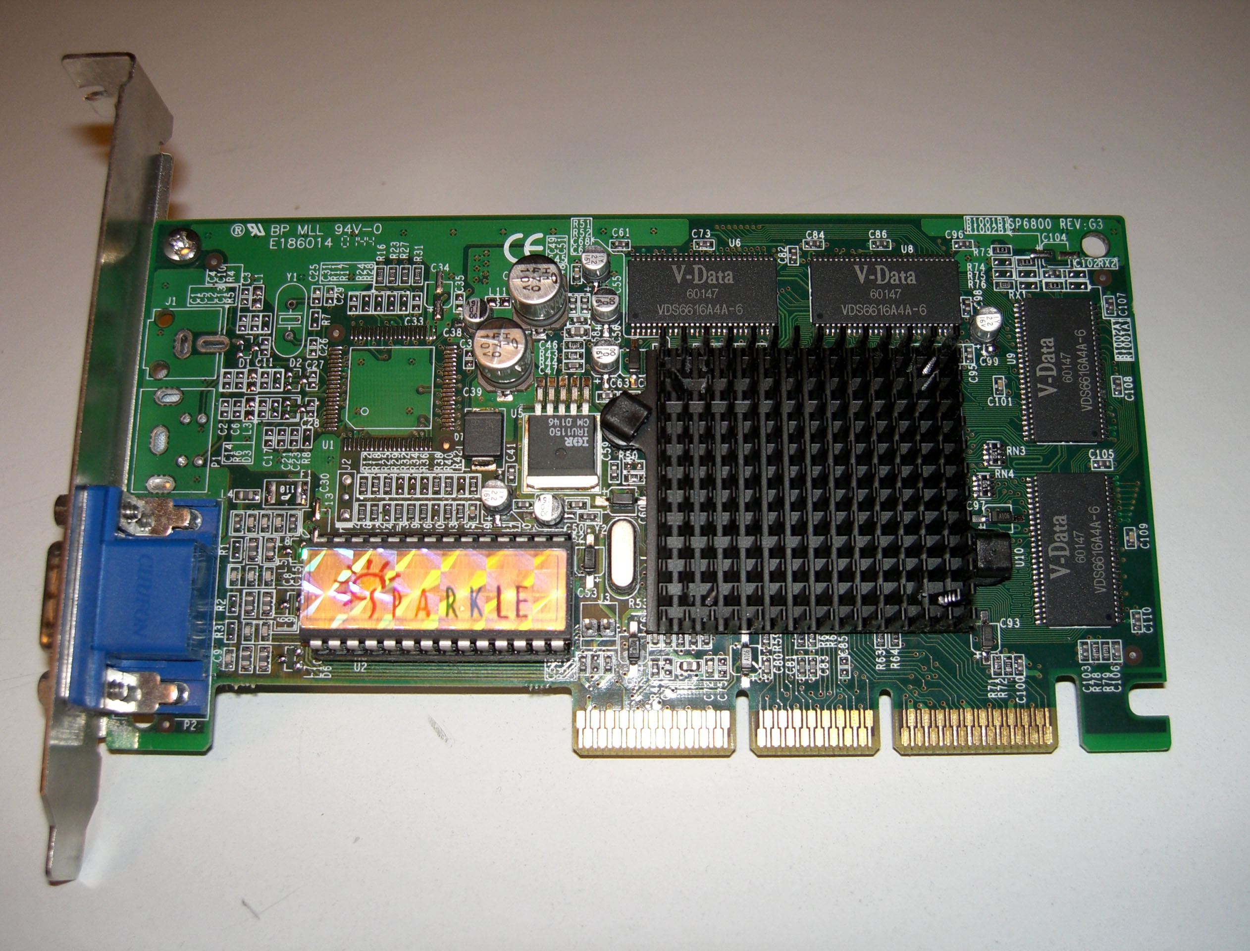 A GeForce 2 MX 400/400 graphics board.